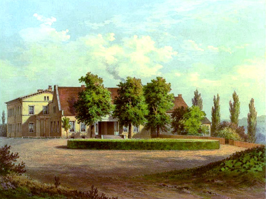 Karbowo